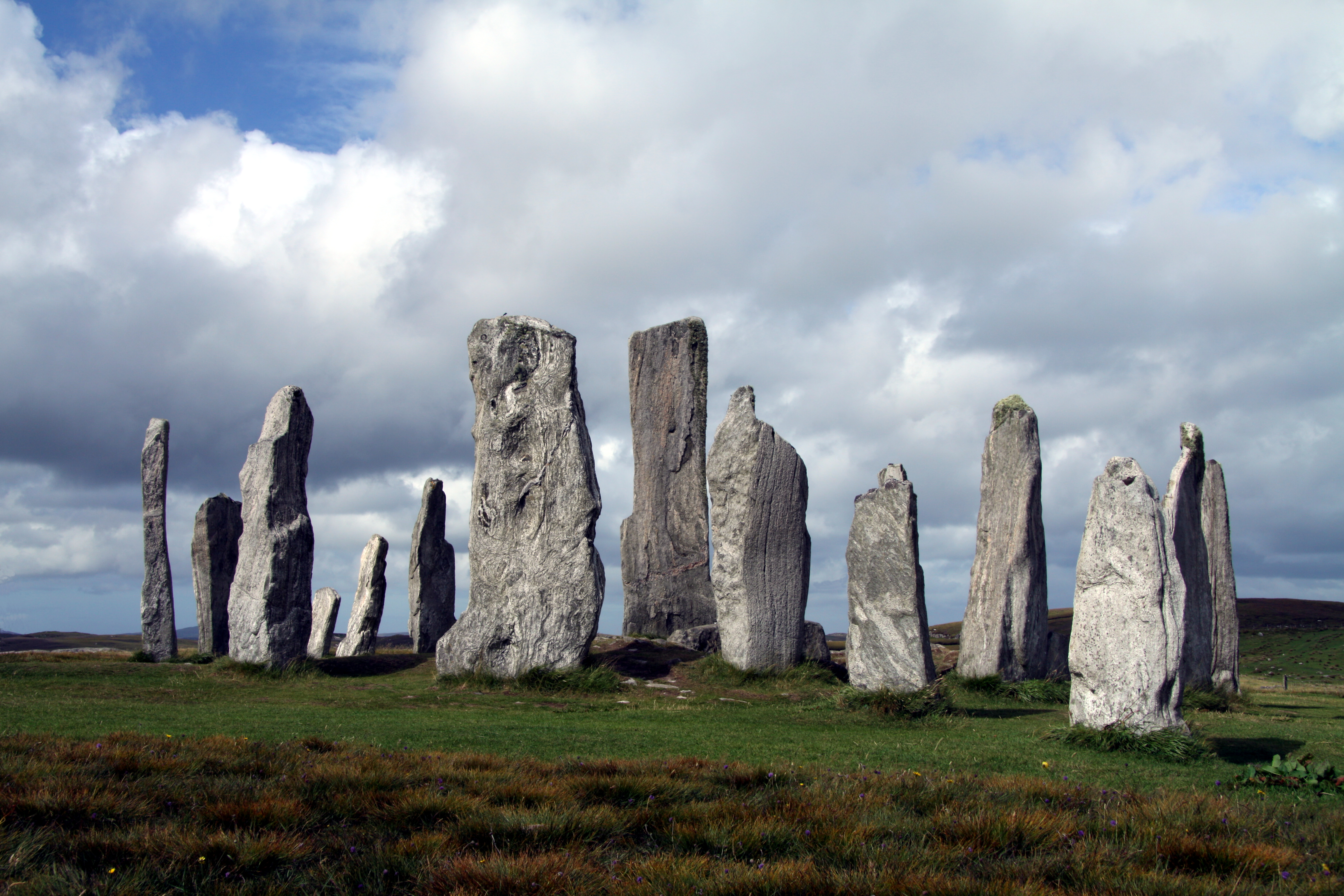 Stone cyrcle Callanish Stones near Callanish village, Isle of Lewis, Outher Hebrids, Scotland - Google Maps - Google Earth